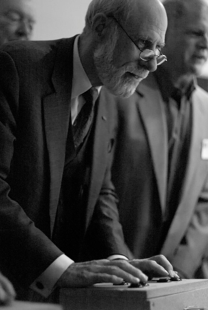 Vint Cerf playing Spacewar! on the Computer History Museum's PDP-1. ICANN meeting, Mountain View, California, 2007.